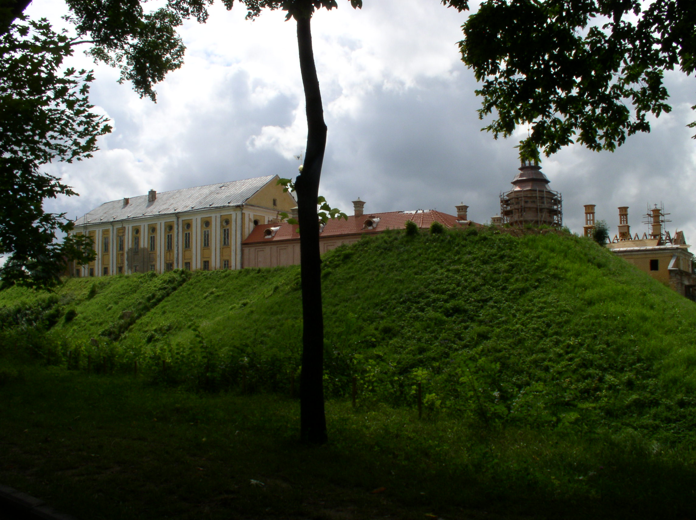 Radziwill family castle, Niasvizh, Belarus.